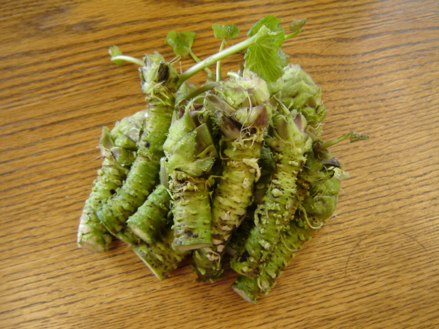 Fresh Daruma Sawa Wasabi rhizomes (photo by Amanda Schmidt ~